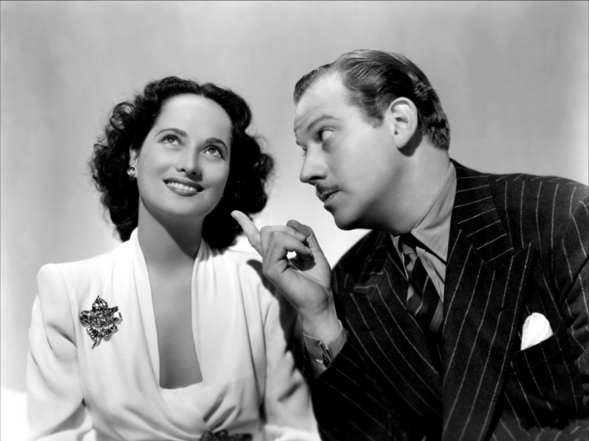 Merle Oberon & Melvyn Douglas in That Uncertain Feeling - cropped screenshot